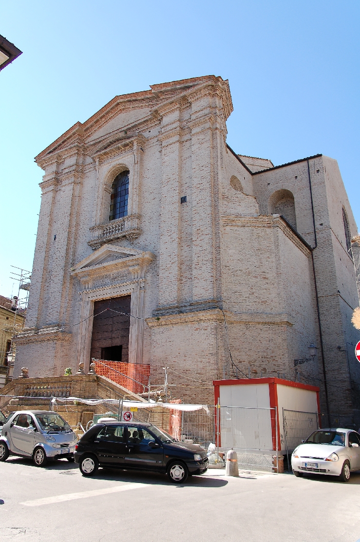 Vasto 2011